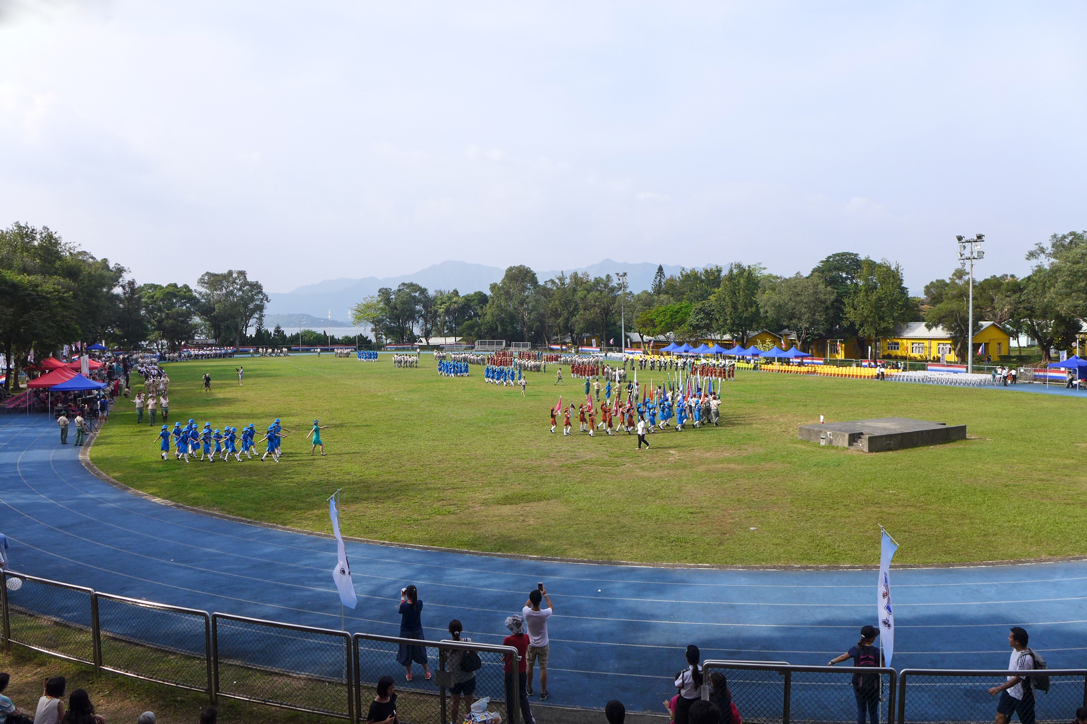 WKS Youth Village Soccer Patch